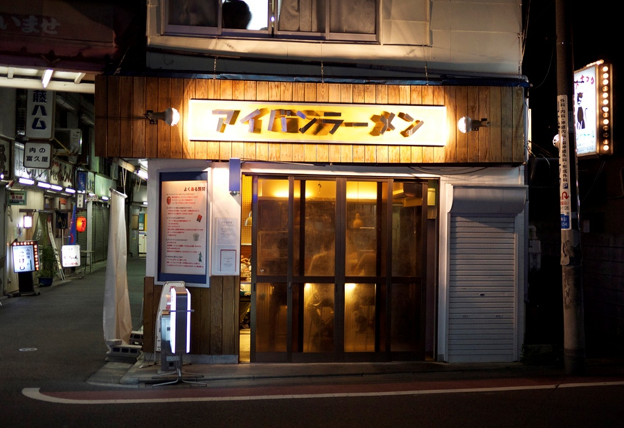 Exterior view of "Ivan Ramen" restaurant in Setagaya-ku, Tokyo, Japan